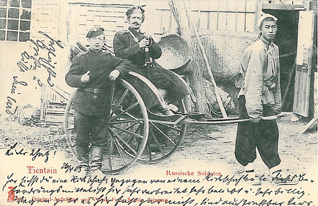 historical view of Tianjin